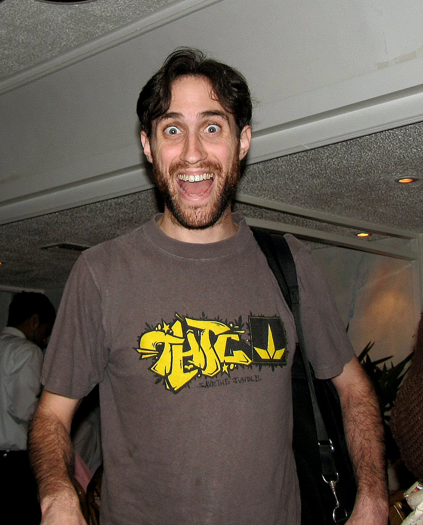 Beardyman, London September 2009